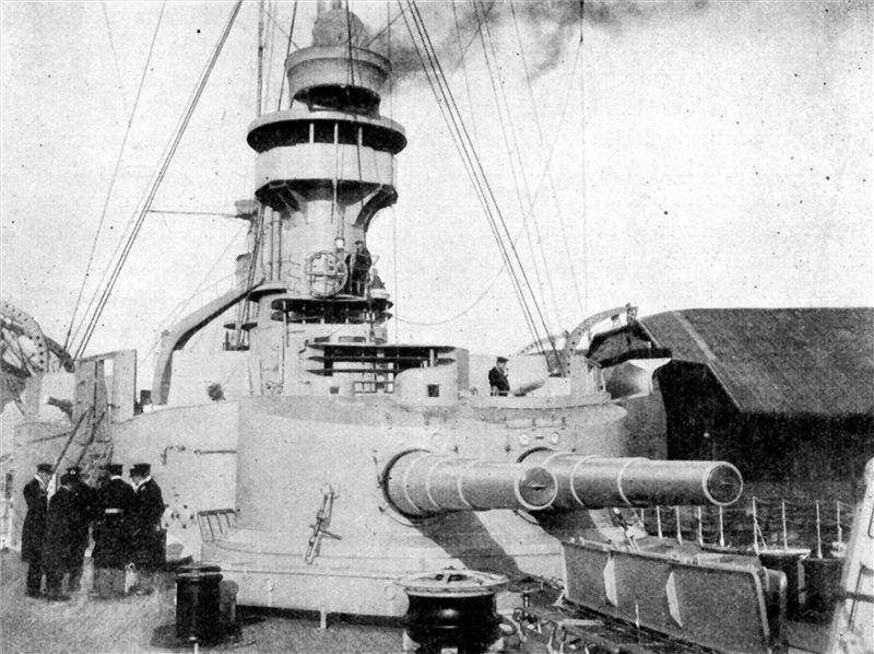 Rear gun turret on SMS Scharnhorst, sunk by British on 8 December 1914